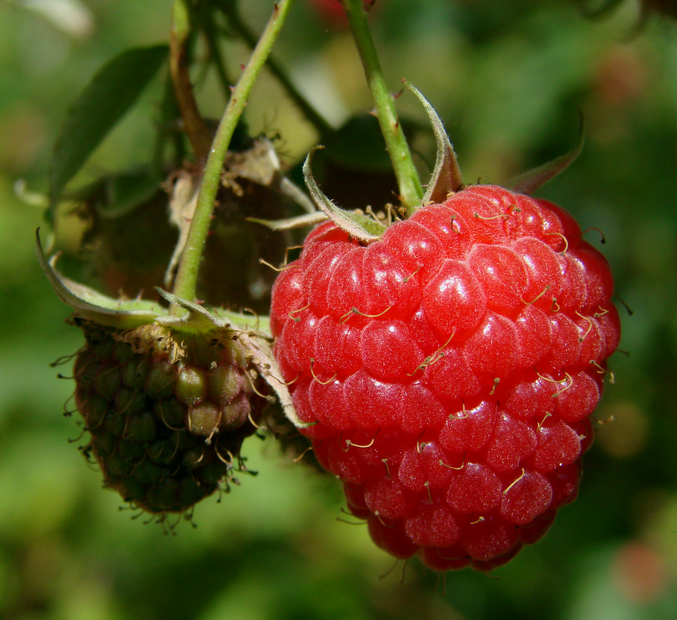 A raspberry (Rubus idaeus).